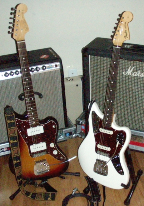 Fender Jaguar (right) and Fender Jazzmaster (left) Torn between two lovers...